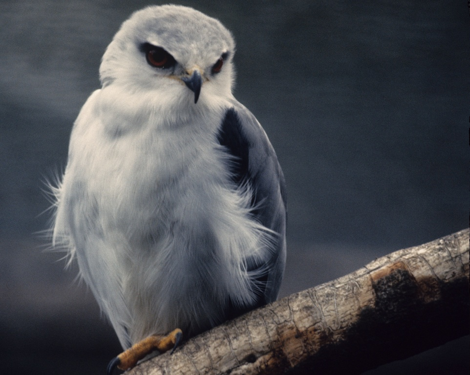 Black-winged Kite (Elanus caeruleus) perched on a dead branch